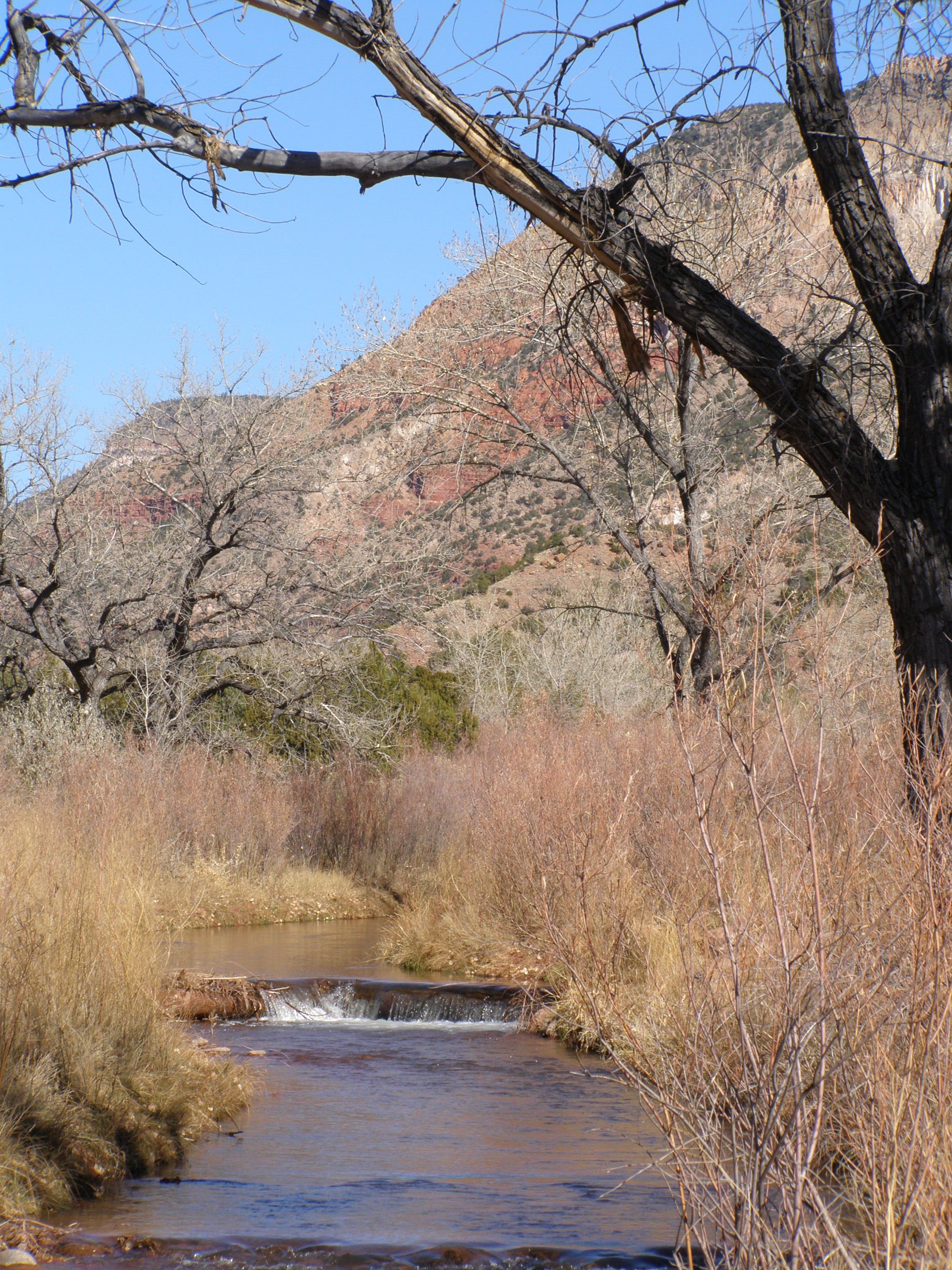 The Jemez River — downstream from Jemez Pueblo, in Sandoval County, central New Mexico.